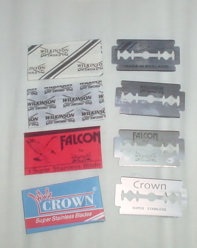 Selection of Wilkinson Sword made UK blades